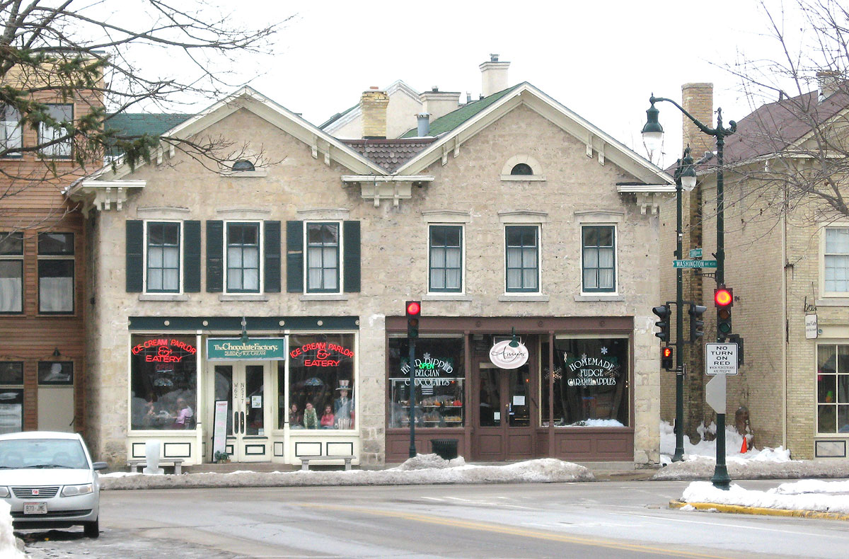 This is the center of the city of Cedarburg, Wisconsin. The intersection of Washington and Columbia. It is my edit of public domain photo Image:Main StreetCB2.jpg. The original was taken by Redwoodperch on March 02 2008.